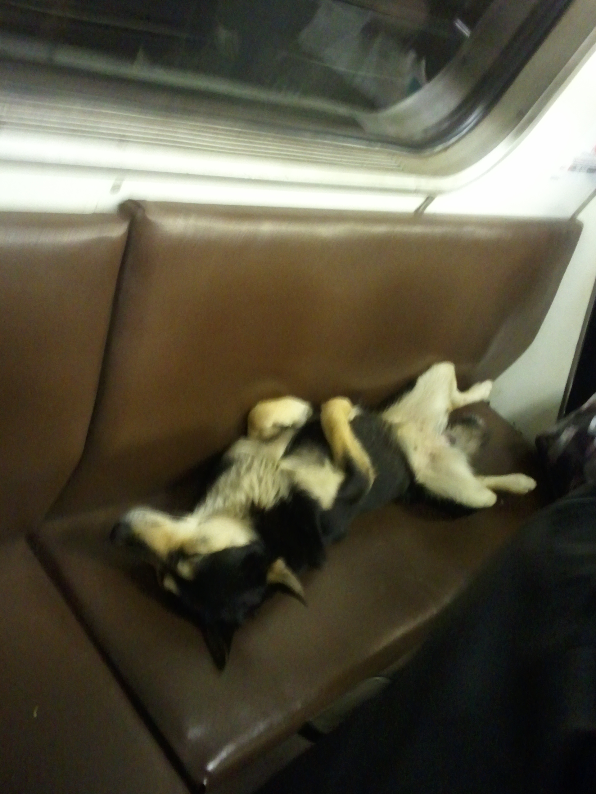 A dog asleep, looking quite comfortable, aboard the Moscow Metro